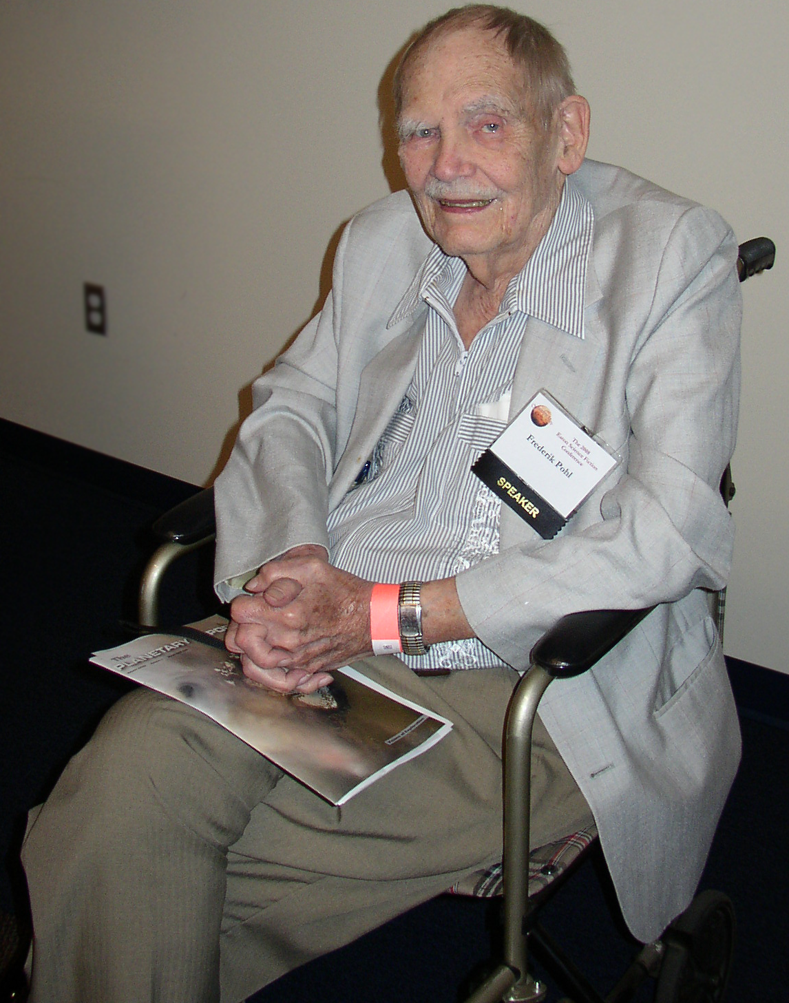 Frederik Pohl at the 2008 University of California, Riverside J. Lloyd Eaton Science Fiction Conference